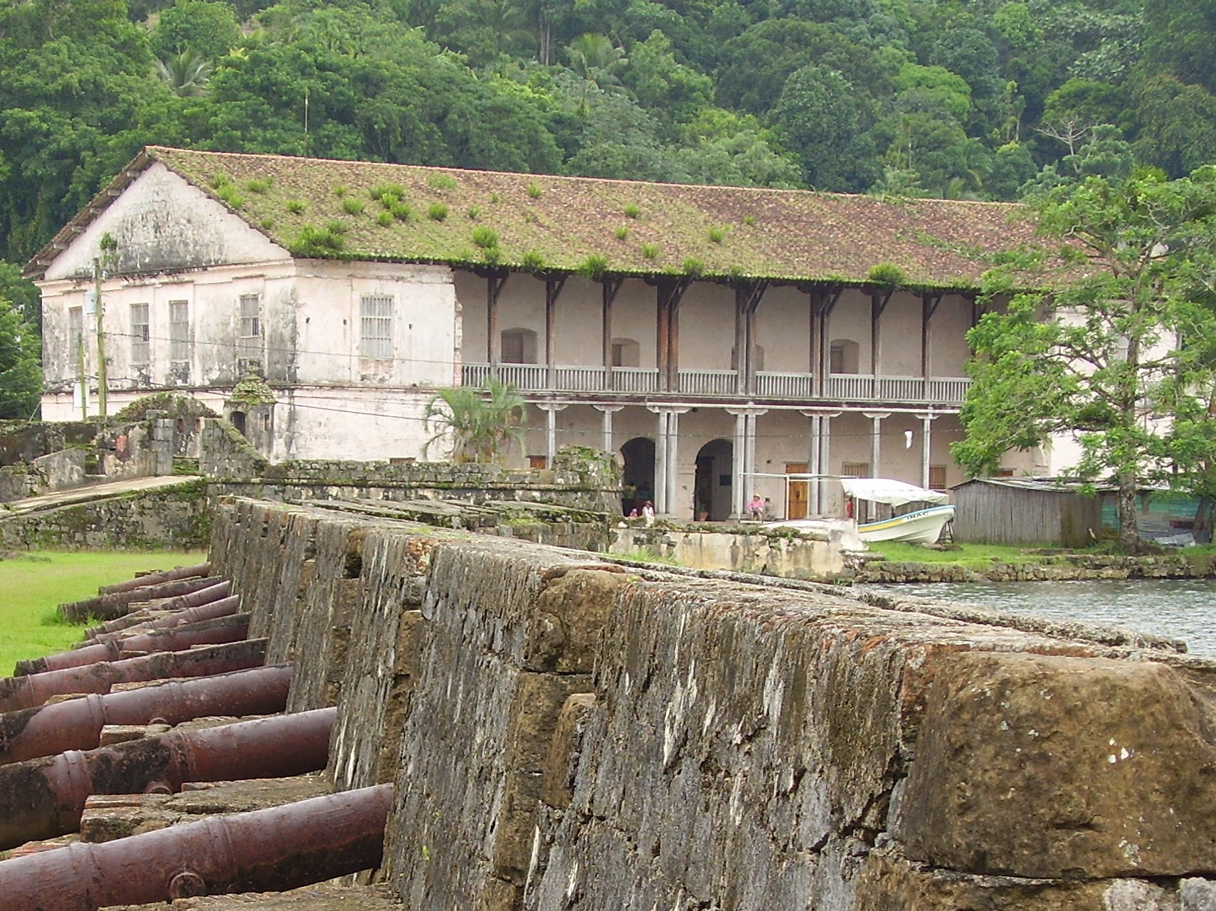 Edificio de la Aduana en Portobelo